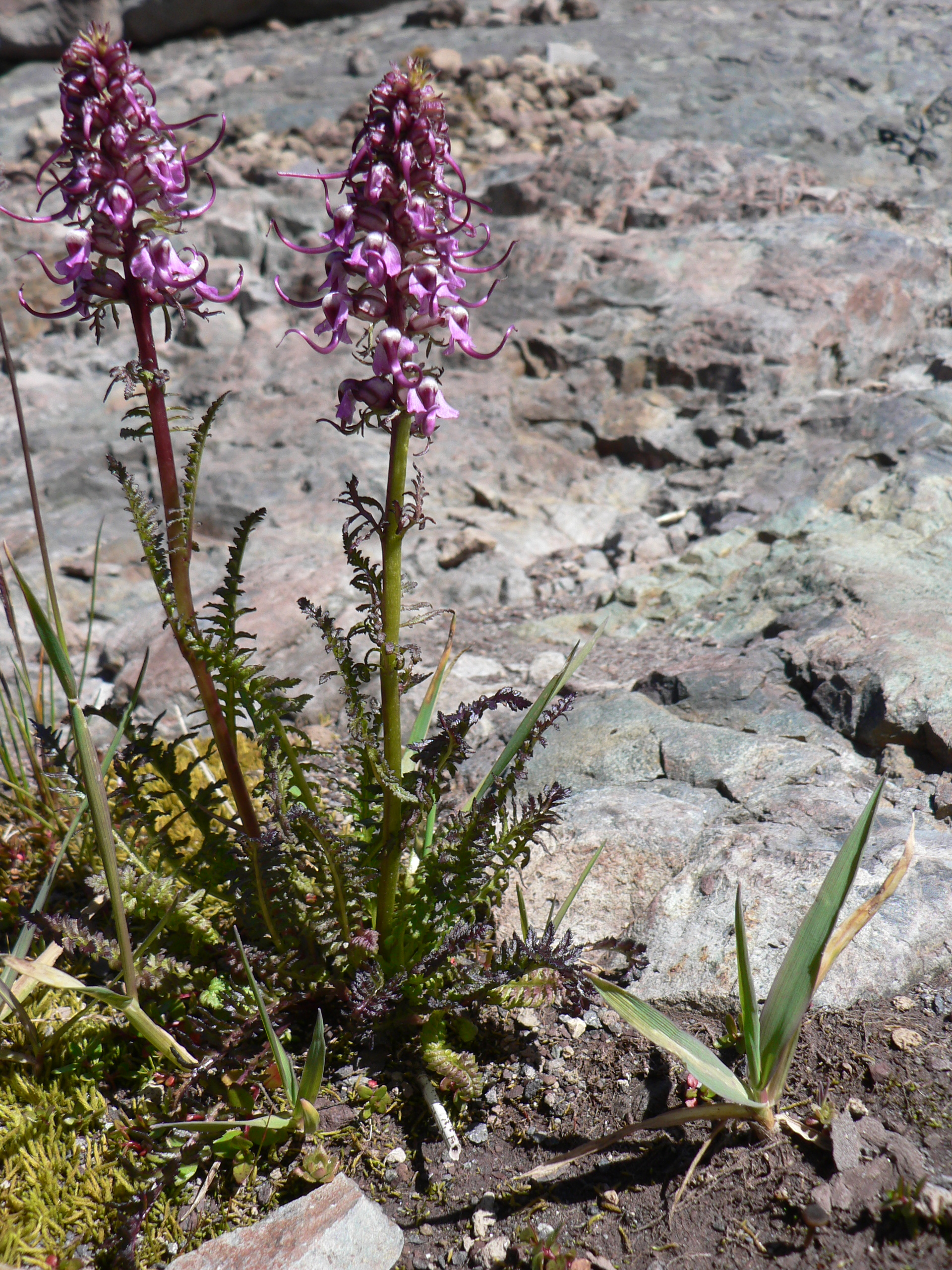 Elephanthead Lousewort